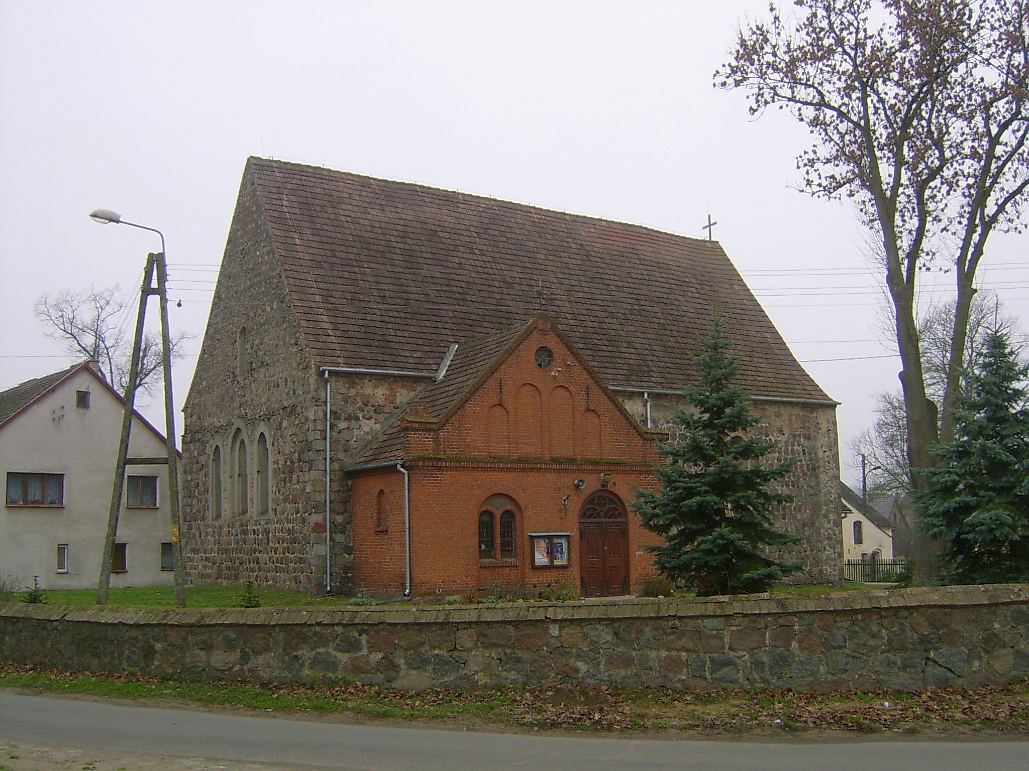 Saint Joseph church in Lubno